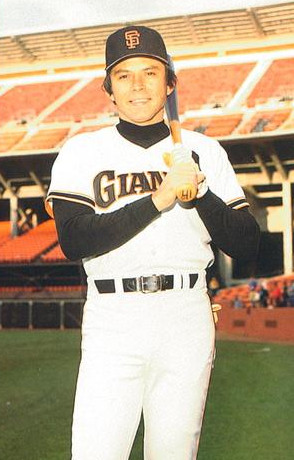 Professional baseball player Darrell Evans